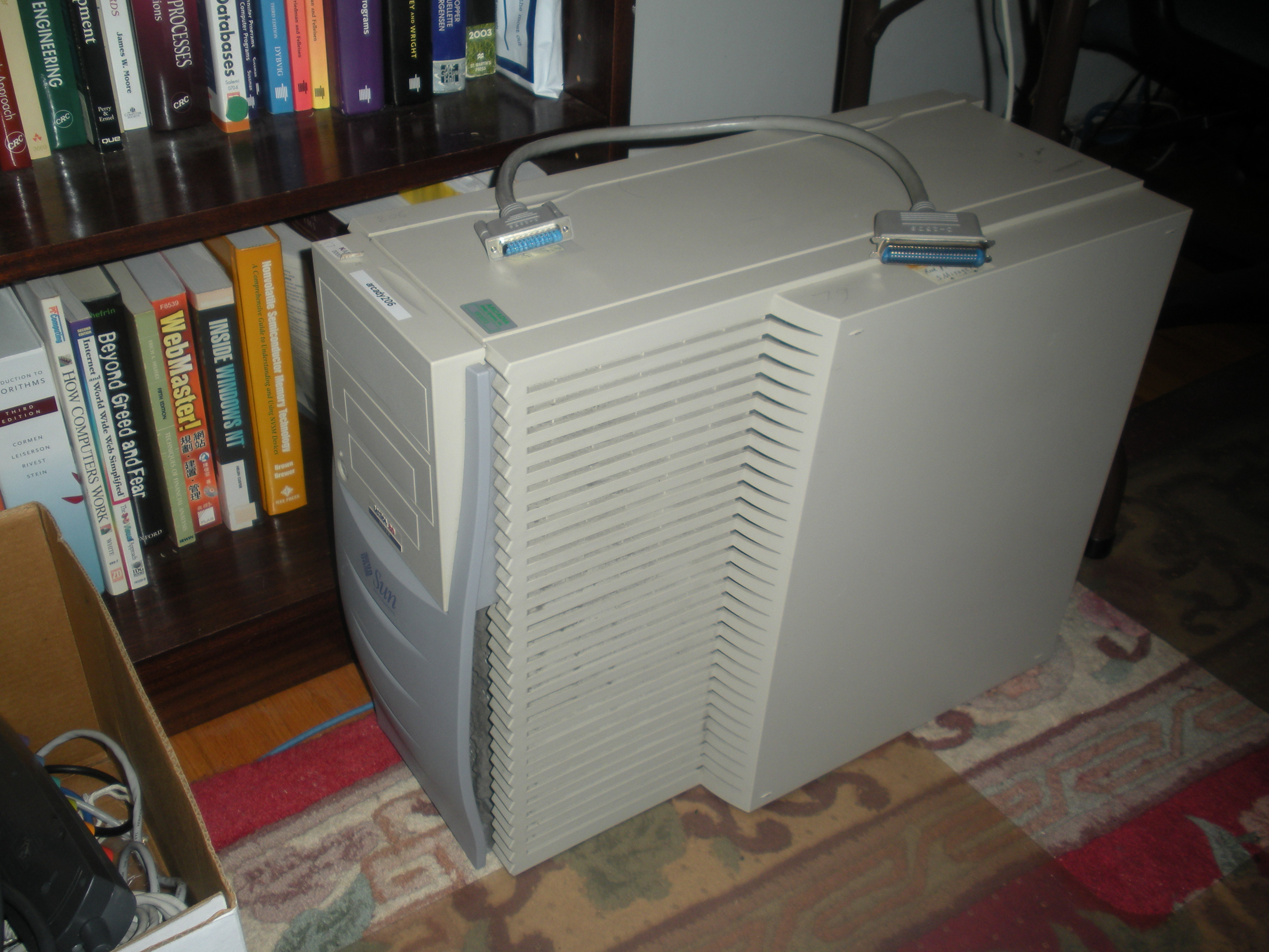 This is a Sun Ultra 80 workstation. This picture is also available at Flickr